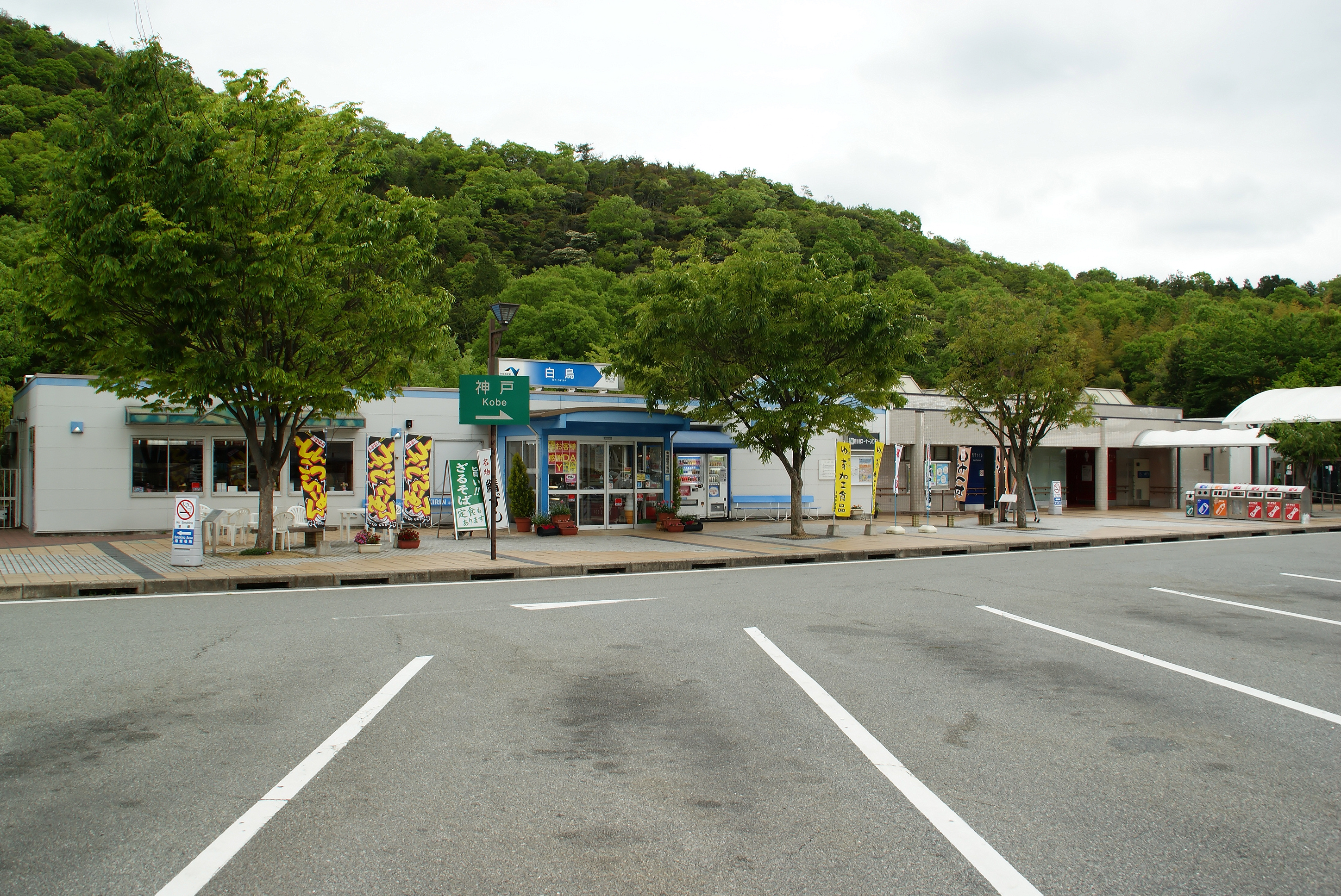 Shiratori Parking Area on the Sanyo Expressway in Himeji City, Hyogo Prefecture, Japan